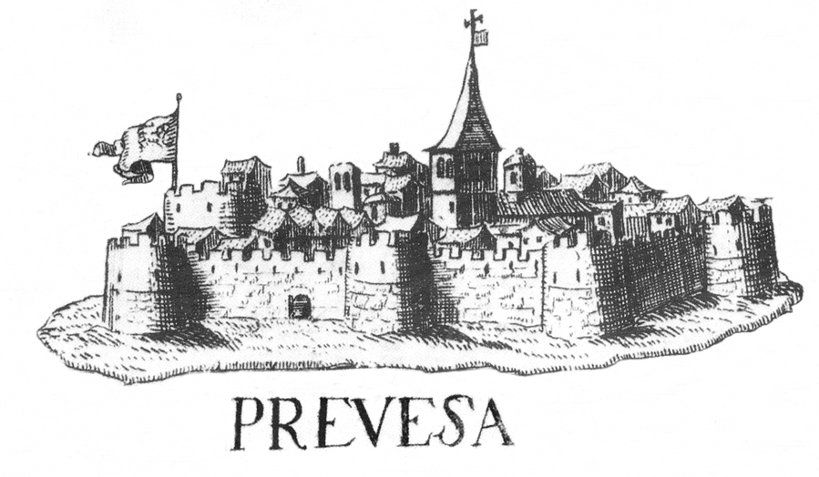 Sketch of the Castle of Bouka, Preveza, after its conquest by the Venetians in 1684. Copper engraving by Vincenzo Maria Coronelli, 1688. Nikos D. Karabelas map collection, Actia Nicopolis Foundation, Preveza, Greece.